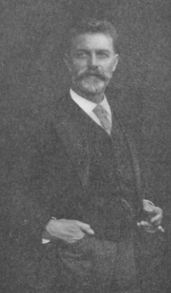 Robert Hausmann, photograph from his obituary in the Musical Times, January 1909.